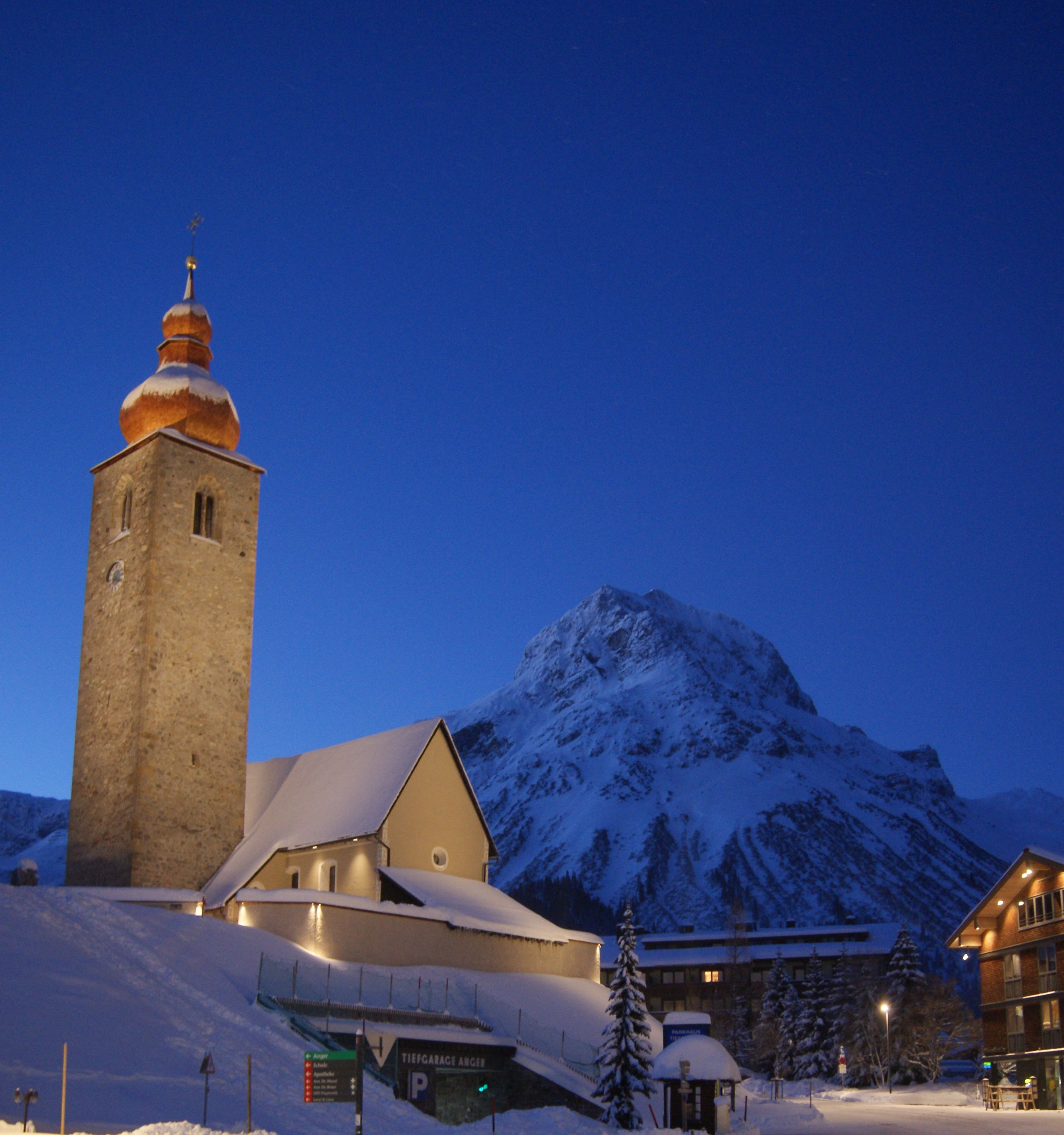 Lech / Arlberg in Vorarlberg, Austria. Village center and parish church of St. Nicholas in Lech.